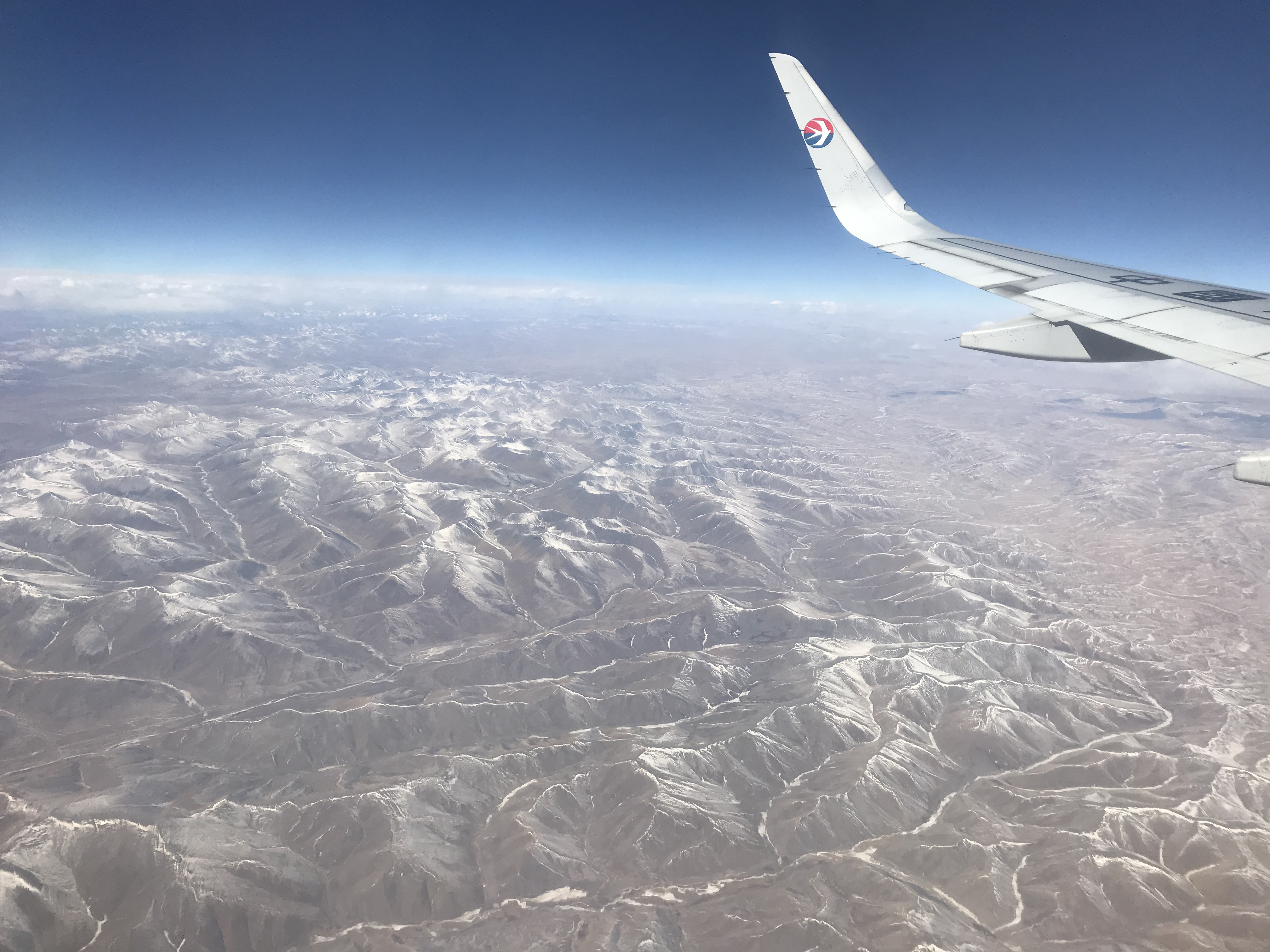 Landscape to the northwest of Serxu County, Garze Prefecture, taken on the flight from Lhasa to Xining.